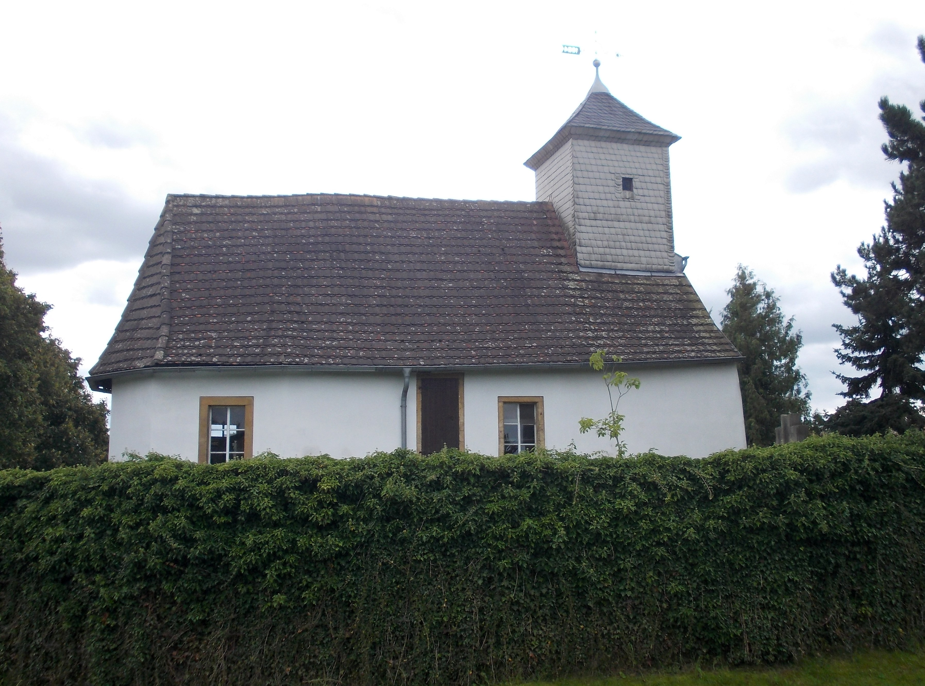 Köckenitzsch church (Molauer Land, district: Burgenlandkreis, Saxony-Anhalt)